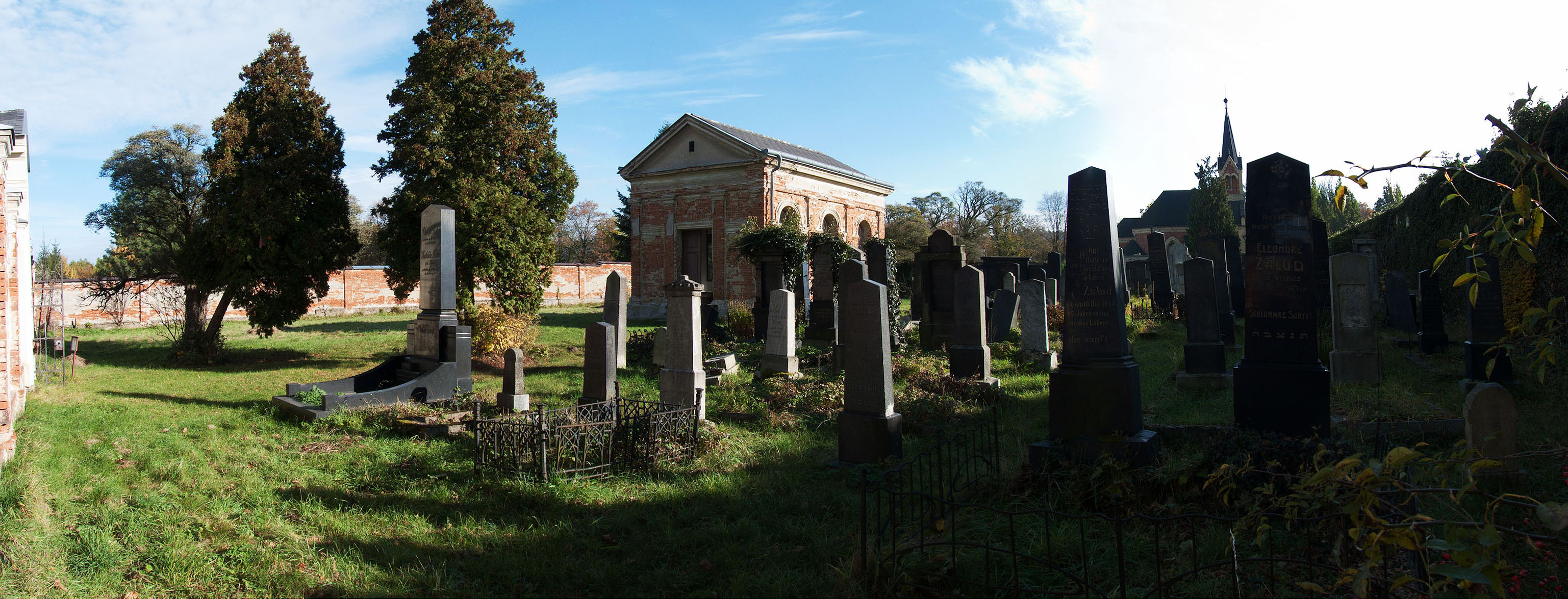 Panorama of the Jewish cemetery in the town of Český Krumlov, South Bohemian Region, Czech Republic